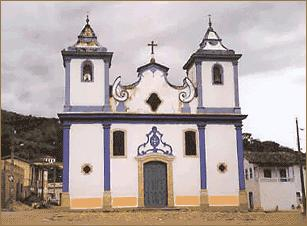 Churches in the district of Furquim, Minas Gerais, Brazil.